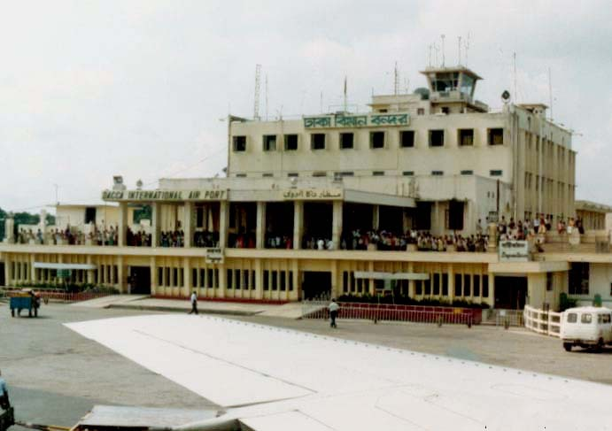 Tejgaon Airport (Old Dacca International Airport)